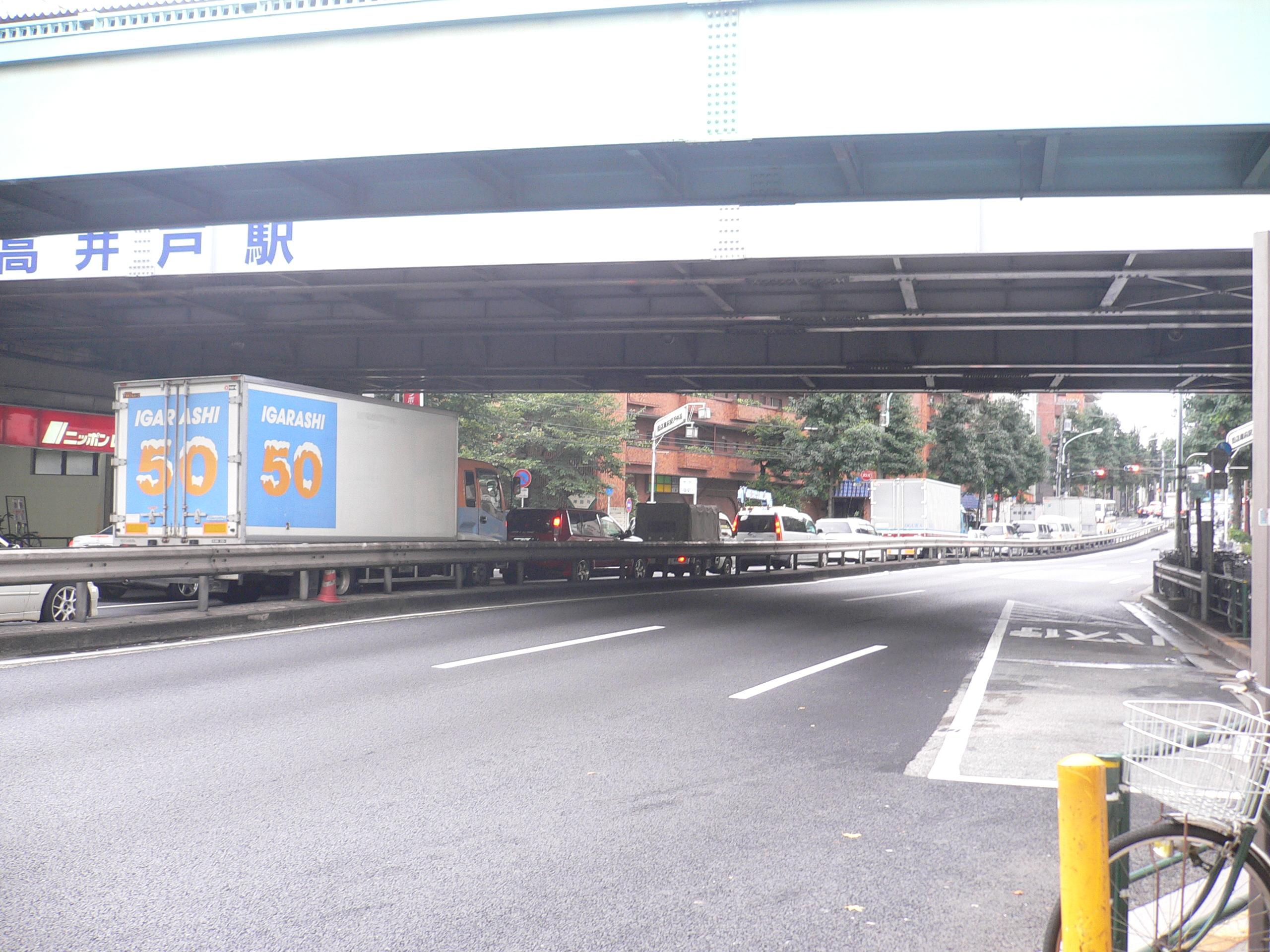 Tokyo metro road no.311 (環八通り) & Takaido Station (高井戸駅), Suginami W, Tokyo M.